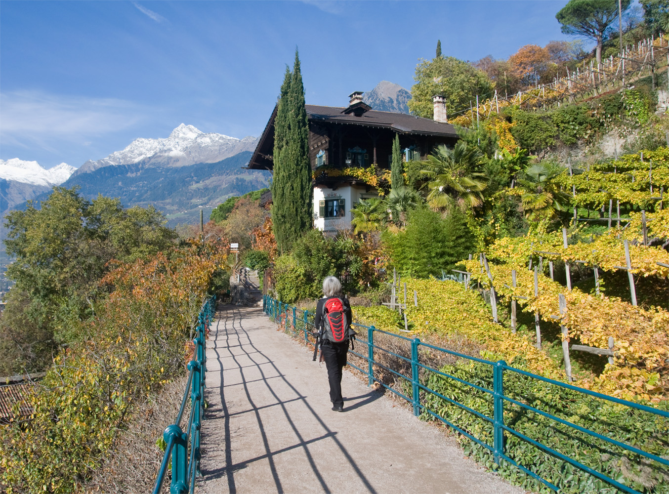 Tappeinerweg - Tappeiner Promenade; City of Meran, South Tyrol